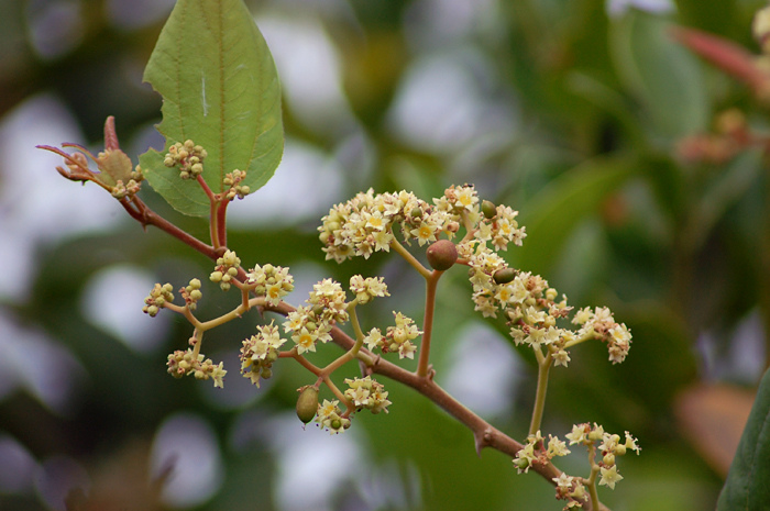 Flowers of Ventilago maderaspatana from Rhamnaceae. Though there is nothing red about the plant, the common (Red Creeper) is said to allude to the fact that the plant is used in the treatment of blood and heart-related diseases. Its said it has a foul smell but I guess your nose is safe till you smell the flowers up close. (Note: This looks like Ziziphus sp. Ventilago fruits are samaras, but this photo shows developing drupes.)